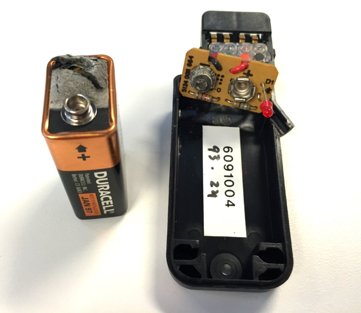 The IBM 8228 MAU Setup Aid to prime the relays on each port; the Setup Aid is showing minor alkaline corrosion from the 1995 battery having been sealed for many years.